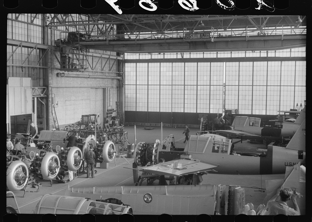 Production of Vought OS2U Kingfisher seaplanes at the Vought-Sikorsky Aircraft Corporation, Stratford, Connecticut (USA), in November 1940.